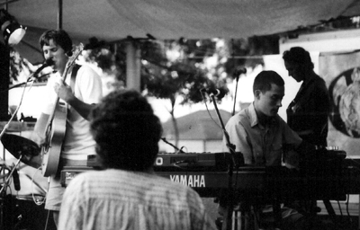 Willis (later the Actual Tigers) at Fiddlestock III, 1998.